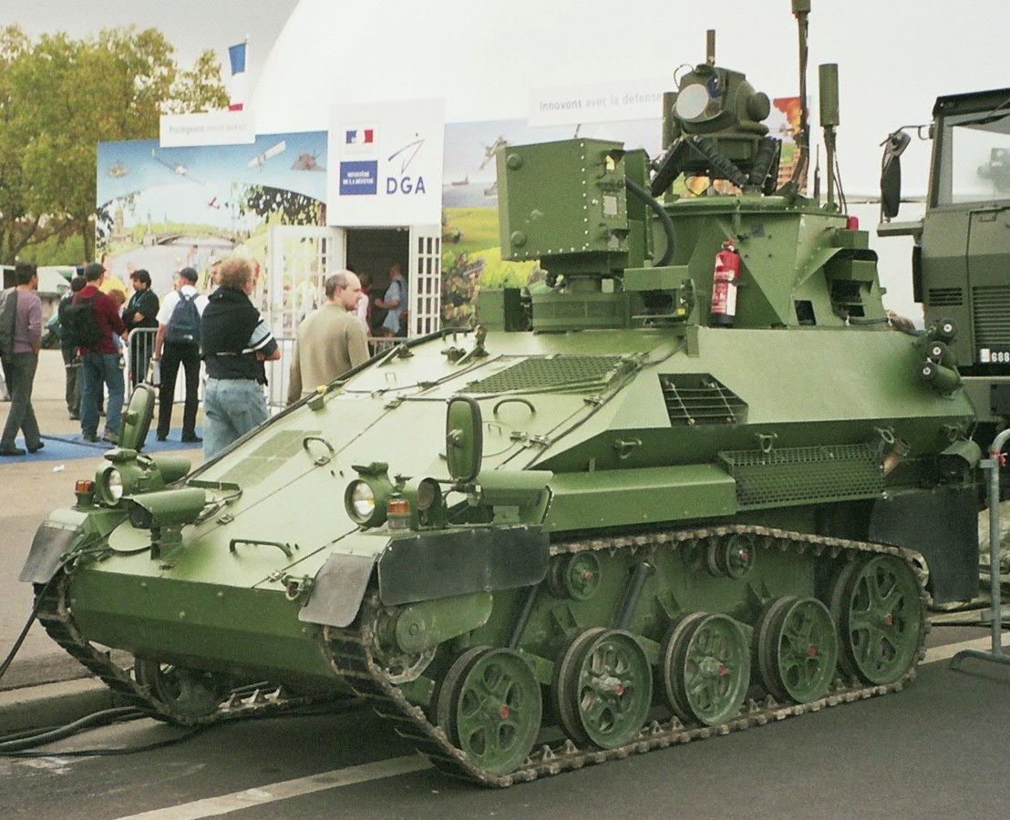 Nation/Defense days, Esplanade des Invalides, Paris, France, September 24-25, 2005